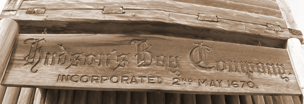 Photo of old Hudson's Bay logo on a fur trading post.